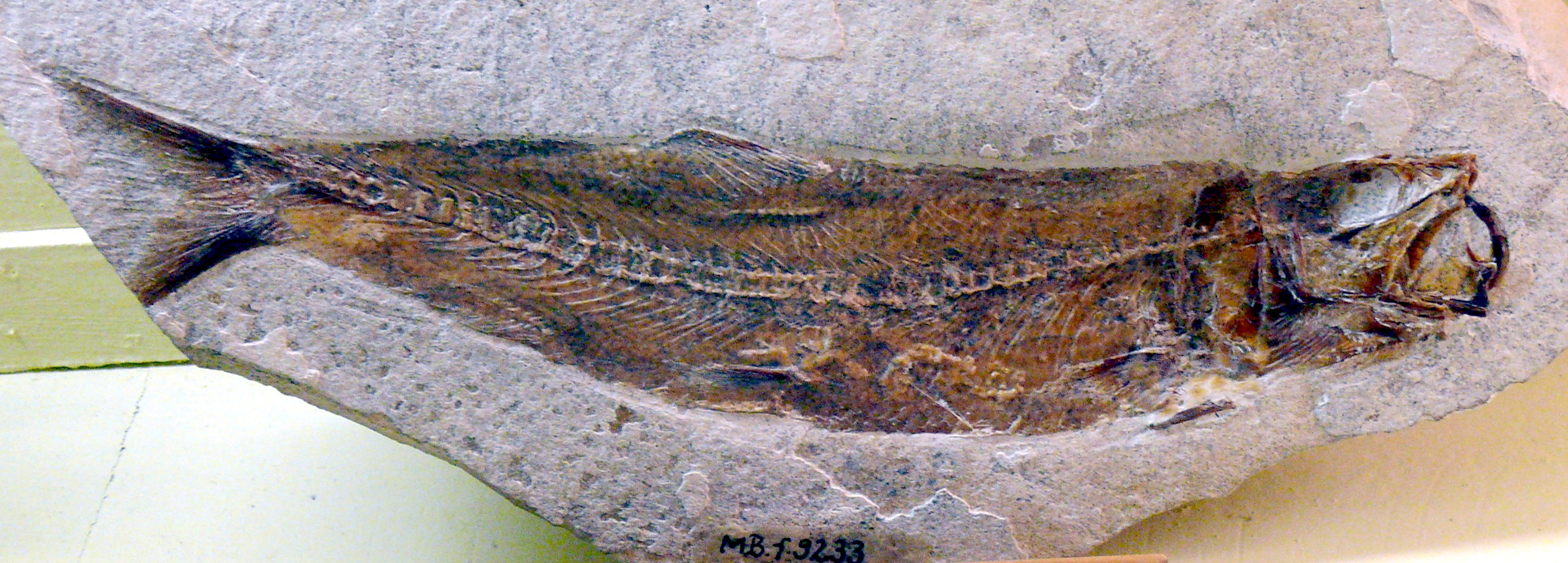 Leptolepis dubia BLAINVILLE, from Solnhofen